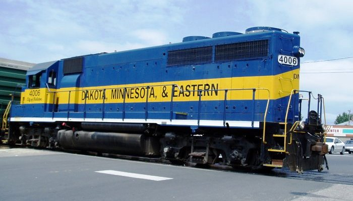 DME GP40 4006, City of Balaton. Taken on August 2, 2004 in Byron. It should be noted that while this picture was taken while running with the long hood forward, the locomotive is in reverse (there is a hard to read "F" printed on the side sill near the short hood).